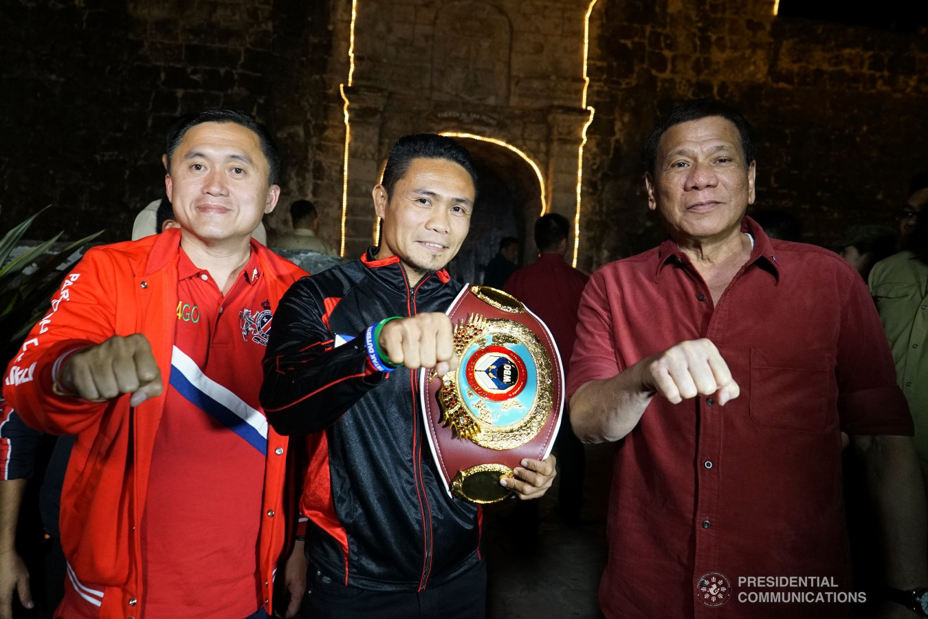 President Rodrigo Roa Duterte flashes his signature pose with World Boxing Organization Super Flyweight World Champion Donnie Nietes on the sidelines of the Partido Demokratiko Pilipino-Lakas ng Bayan (PDP-Laban) campaign rally at the Plaza Independencia in Cebu City on February 24, 2019. Also in the photo is former Special Assistant to the President Christopher Lawrence "Bong" Go. KING RODRIGUEZ/PRESIDENTIAL PHOTO